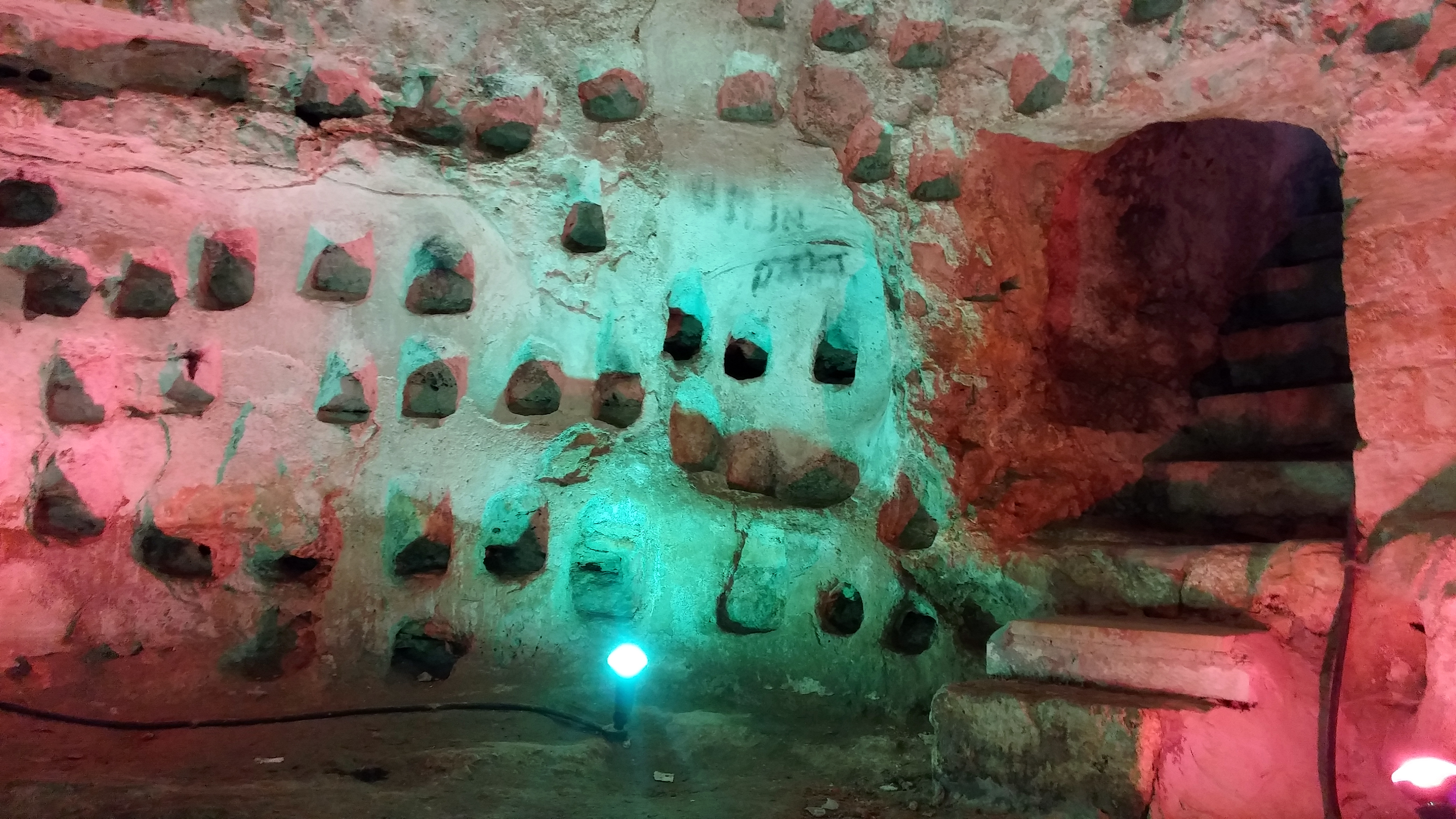 Kerem Avraham in Jerusalem